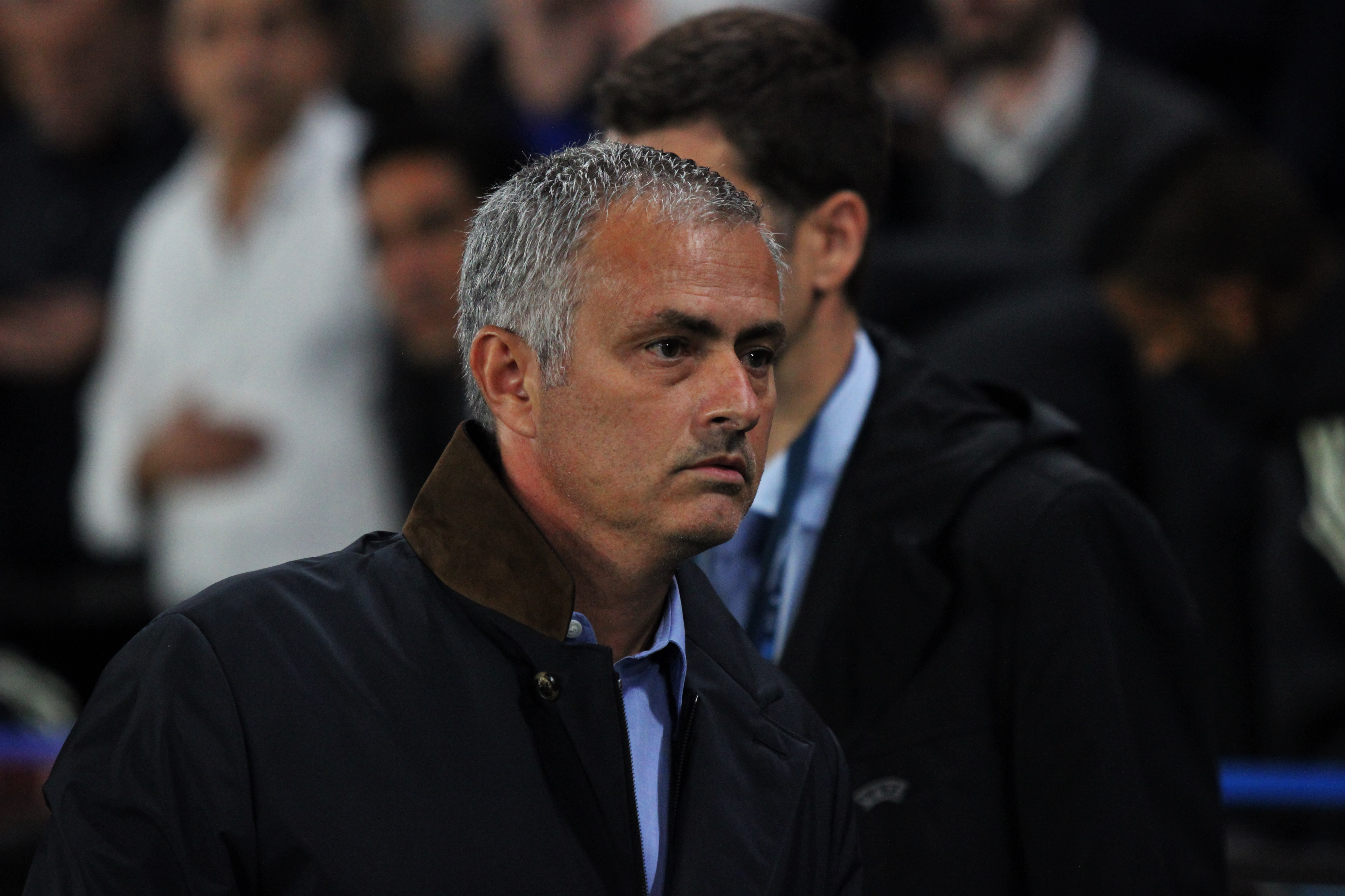 Chelsea manager Jose Mourinho before the Champions League game against Maccabi Tel-Aviv.